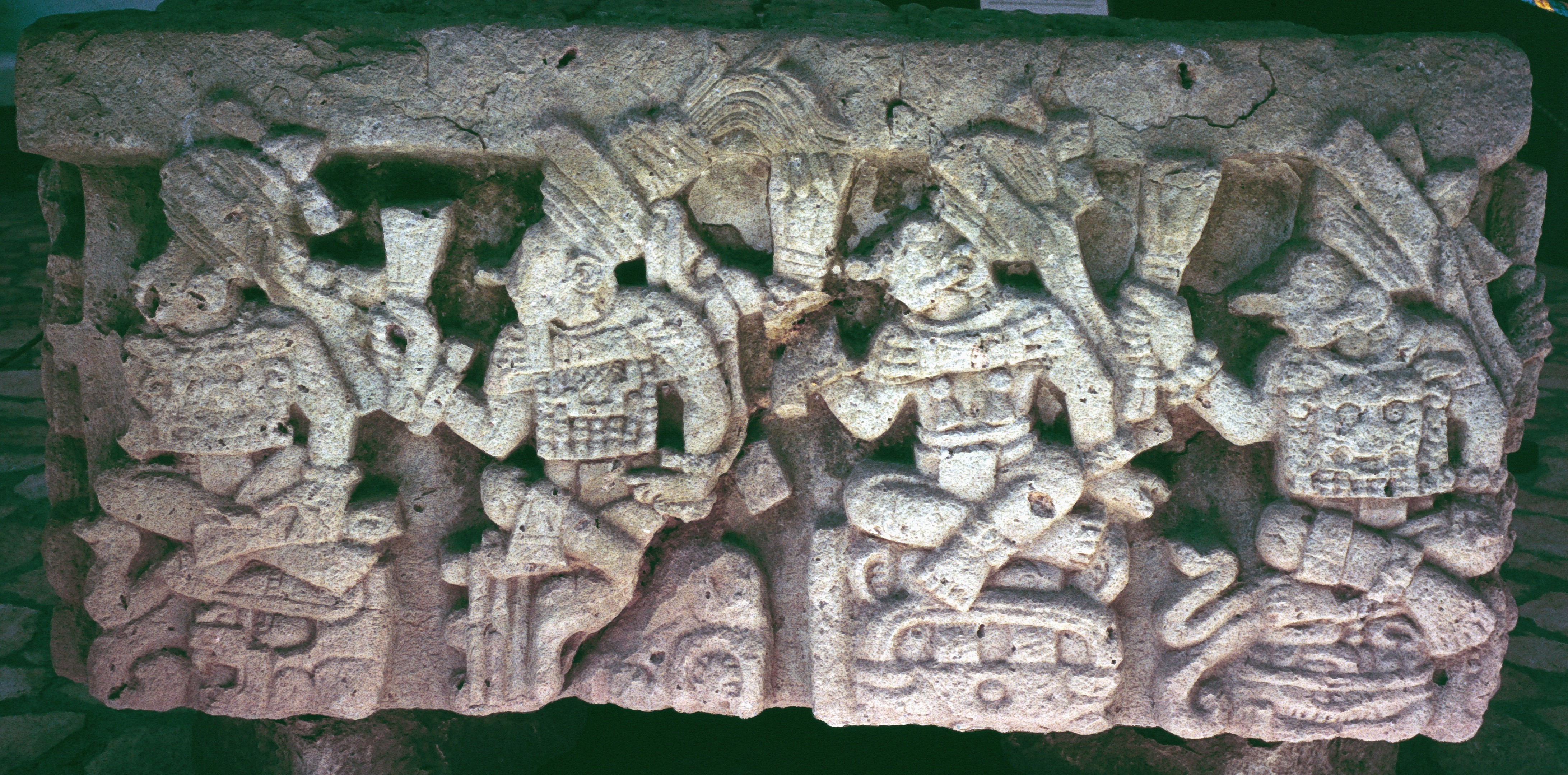 Copán, Honduras: Altar Q